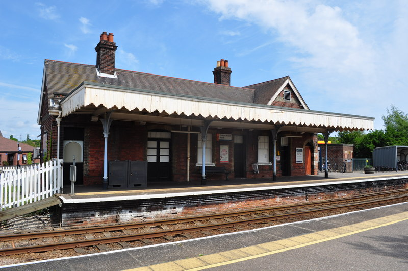 Oulton Broad North Railway Station, near to Oulton Broad, Suffolk, Great Britain. A small station on the double tracked line from Lowestoft to Norwich via Reedham. The junction for the east Suffolk line is a little further on. The building is used as an Indian restaurant.